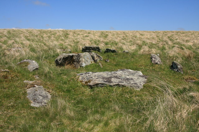 Langcombe Brook cist A retaining circle of stones around a burial chamber on a hillside north of Langcombe Brook.